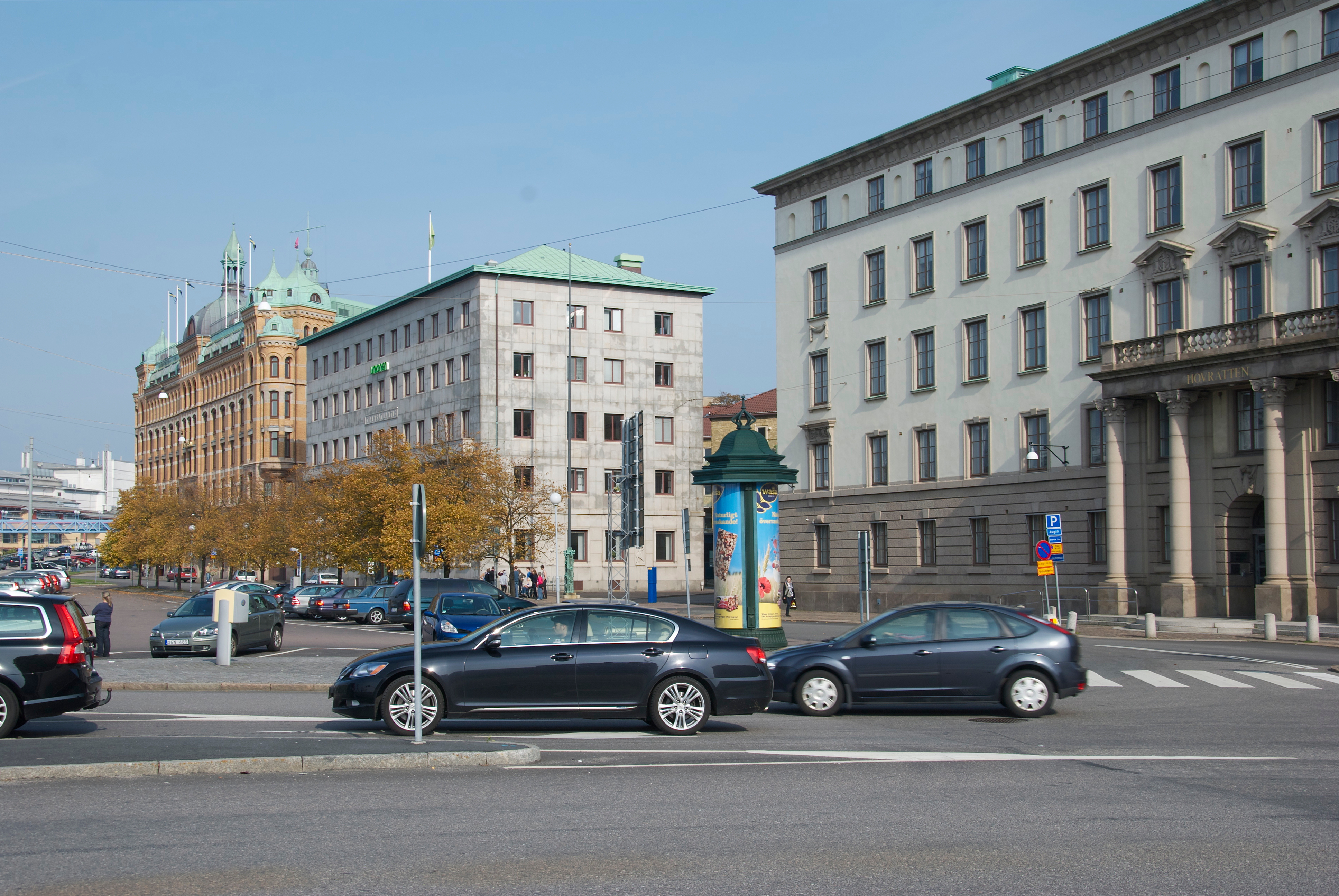 Packhusplatsen in Gothenburg, september 2011.